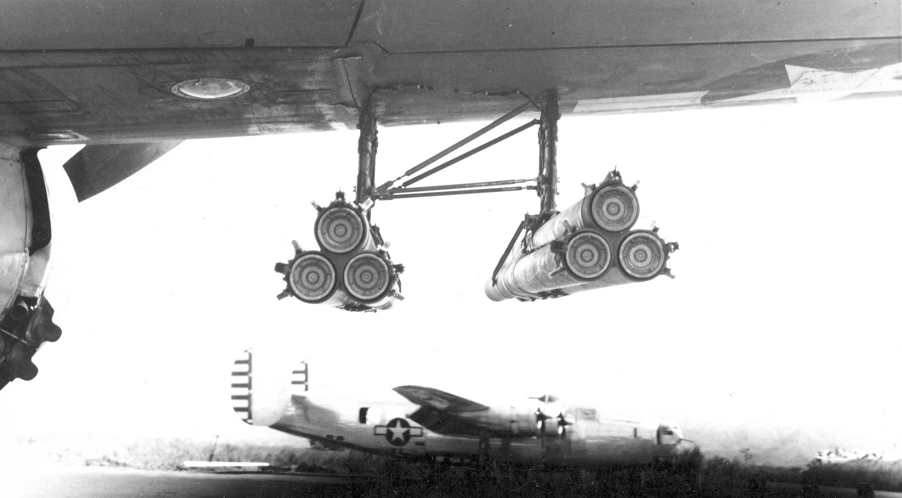 T30 rocket launcher, carrying three 4.5in rockets, under the wing of an an A-20 of the 90th Attack Squadron, 3rd Attack Group, Hollandia, in mid-1944.